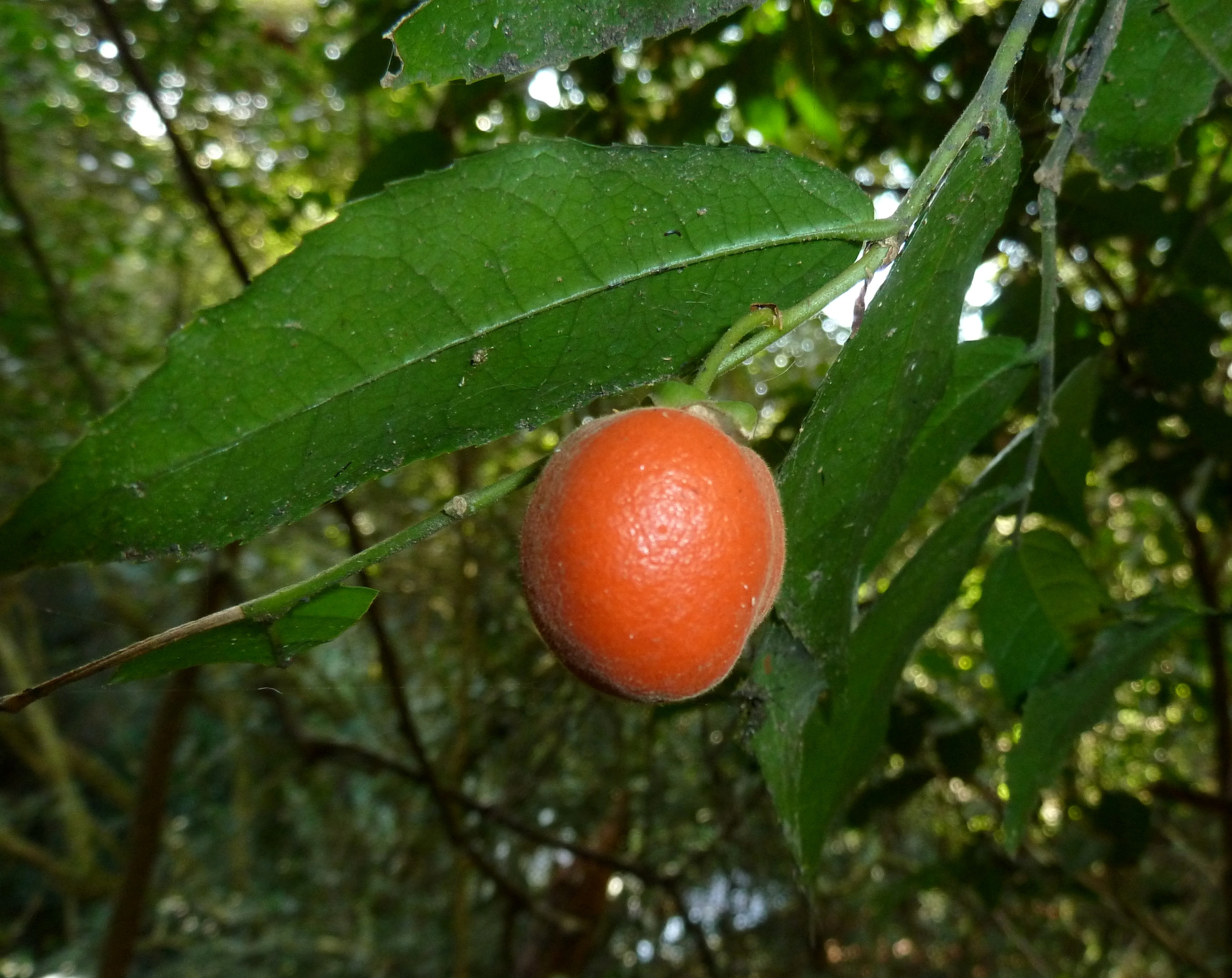 Fruit of a Water ironplum in Krantzkloof Nature Reserve in KwaZulu-Natal